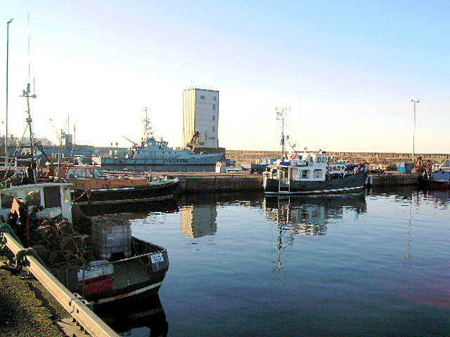 The Harbour at Buckie